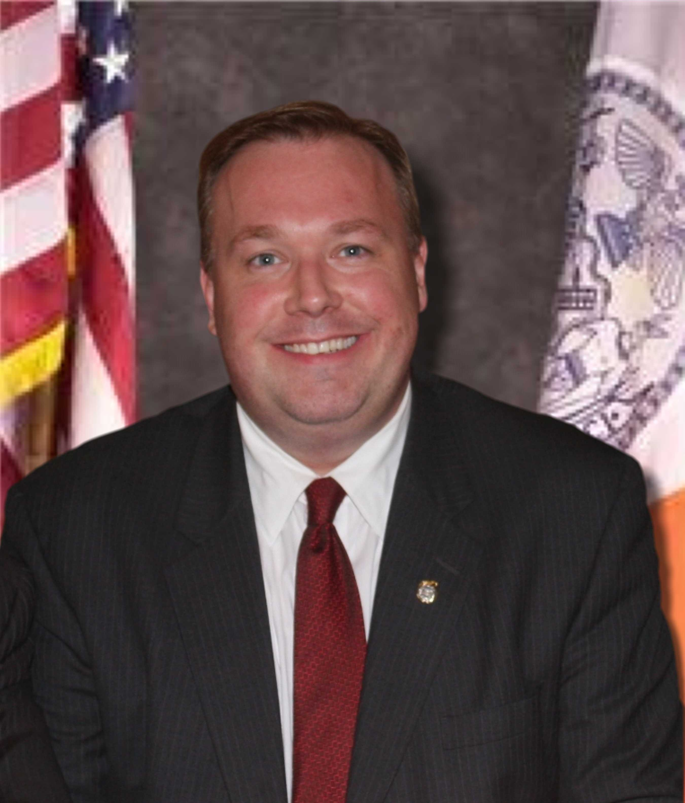 Council Member Dan Halloran, (R) New York City, Queens County District 19